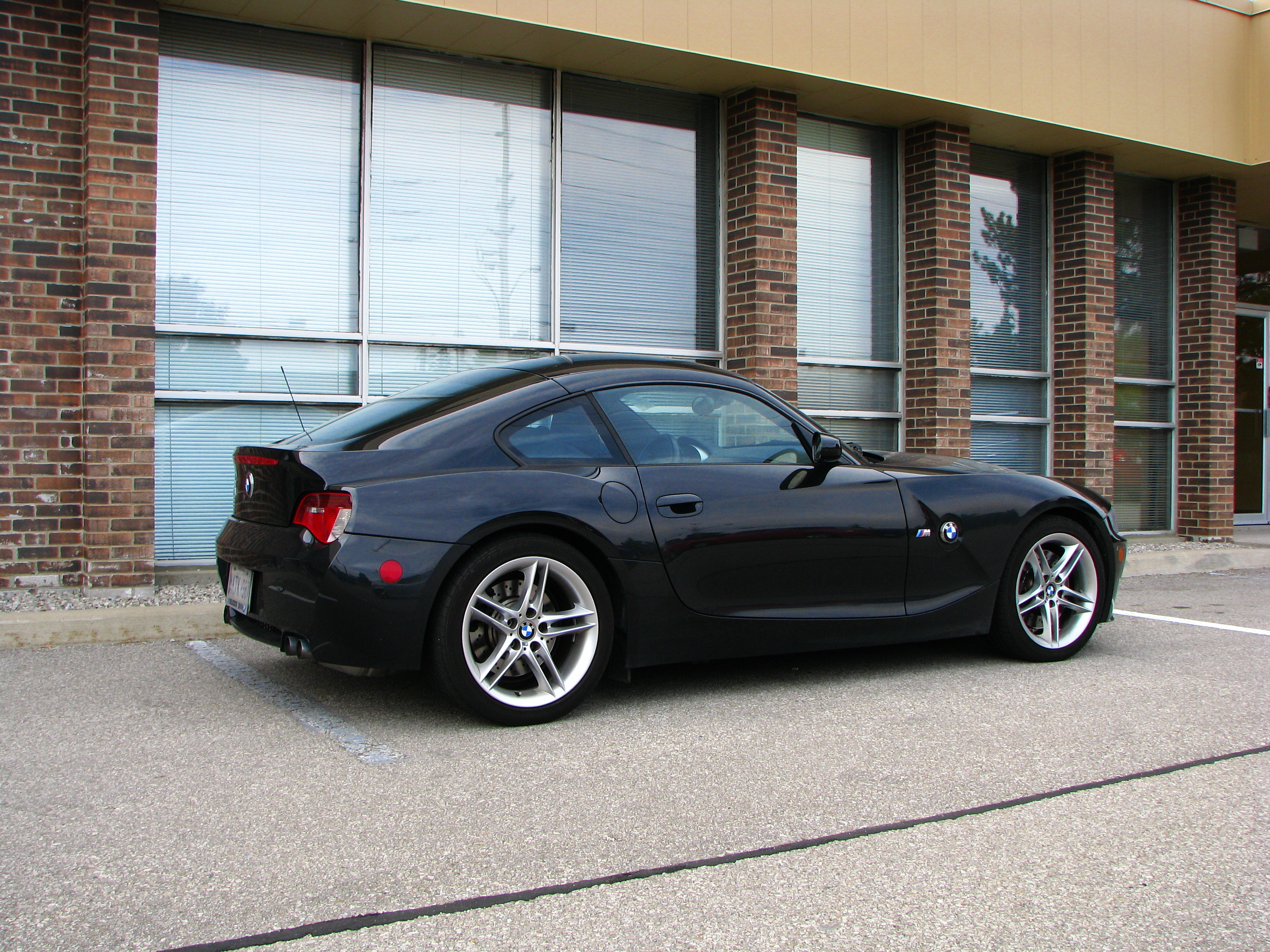 What a cute little toy :P!